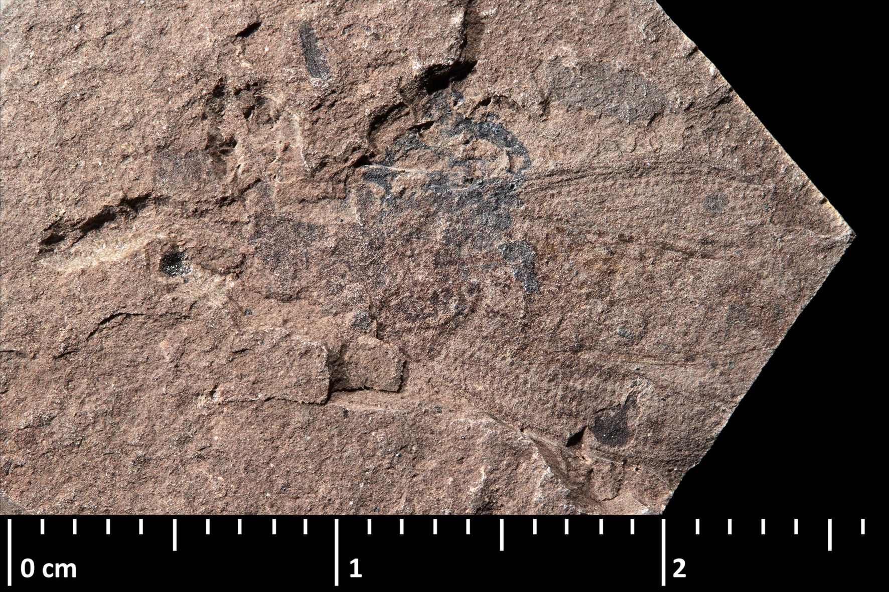 The Mesocupes (Cainomerga) brevicornis holotypepart specimen with direct lighting. Thanetian, Paleocene; Menat Formation, Menat Basin, Puy-de-Dôme, France Muséum national d'Histoire naturelle specimen MNHN.F.A51119